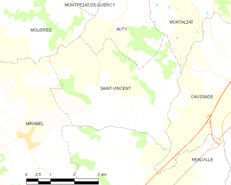 Map of French municipality Saint-Vincent